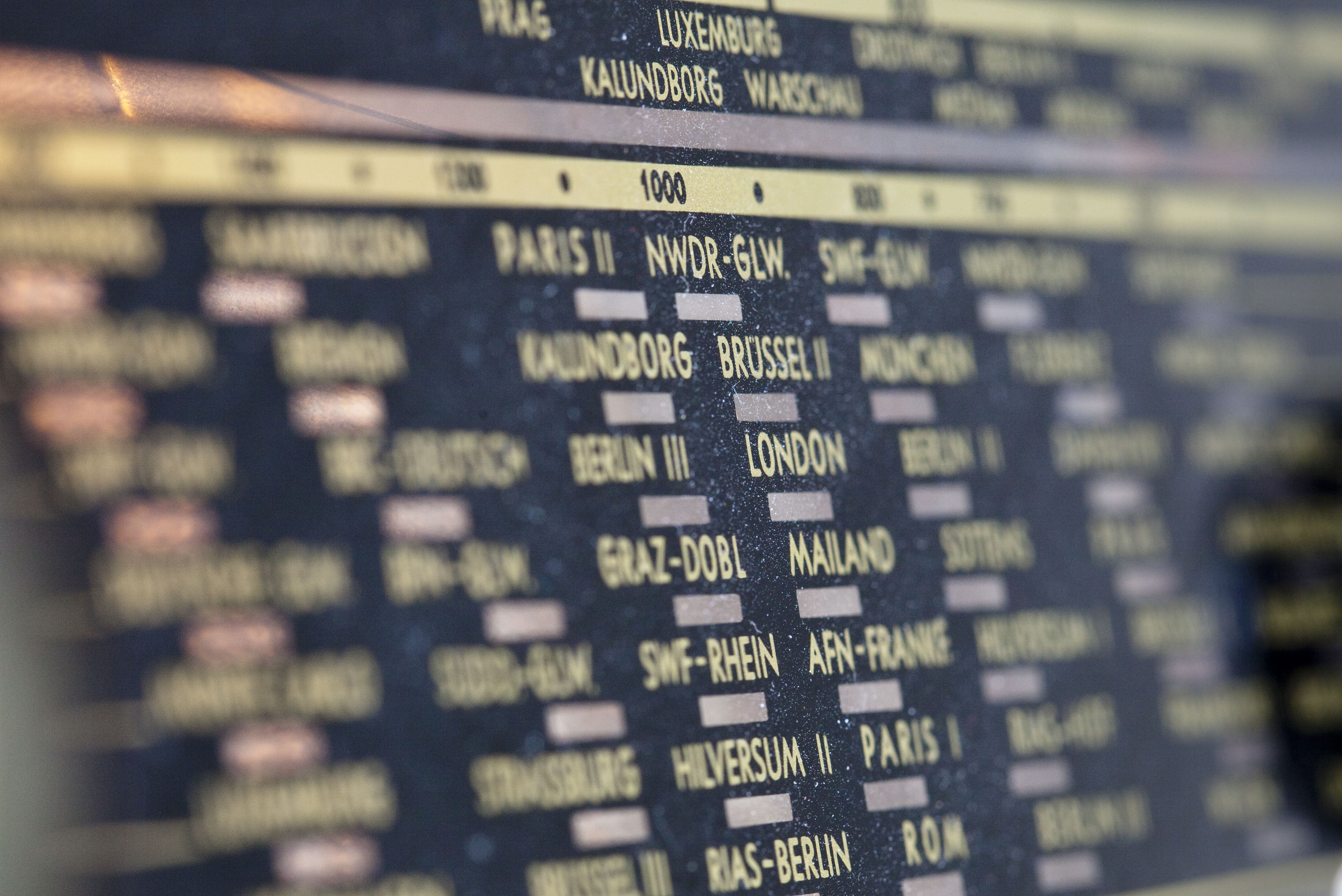 Radio dial from the early 1950ies in Europe: A tube powered home radio receiver shows FM and AM stations in Germany and neighbouring countries.